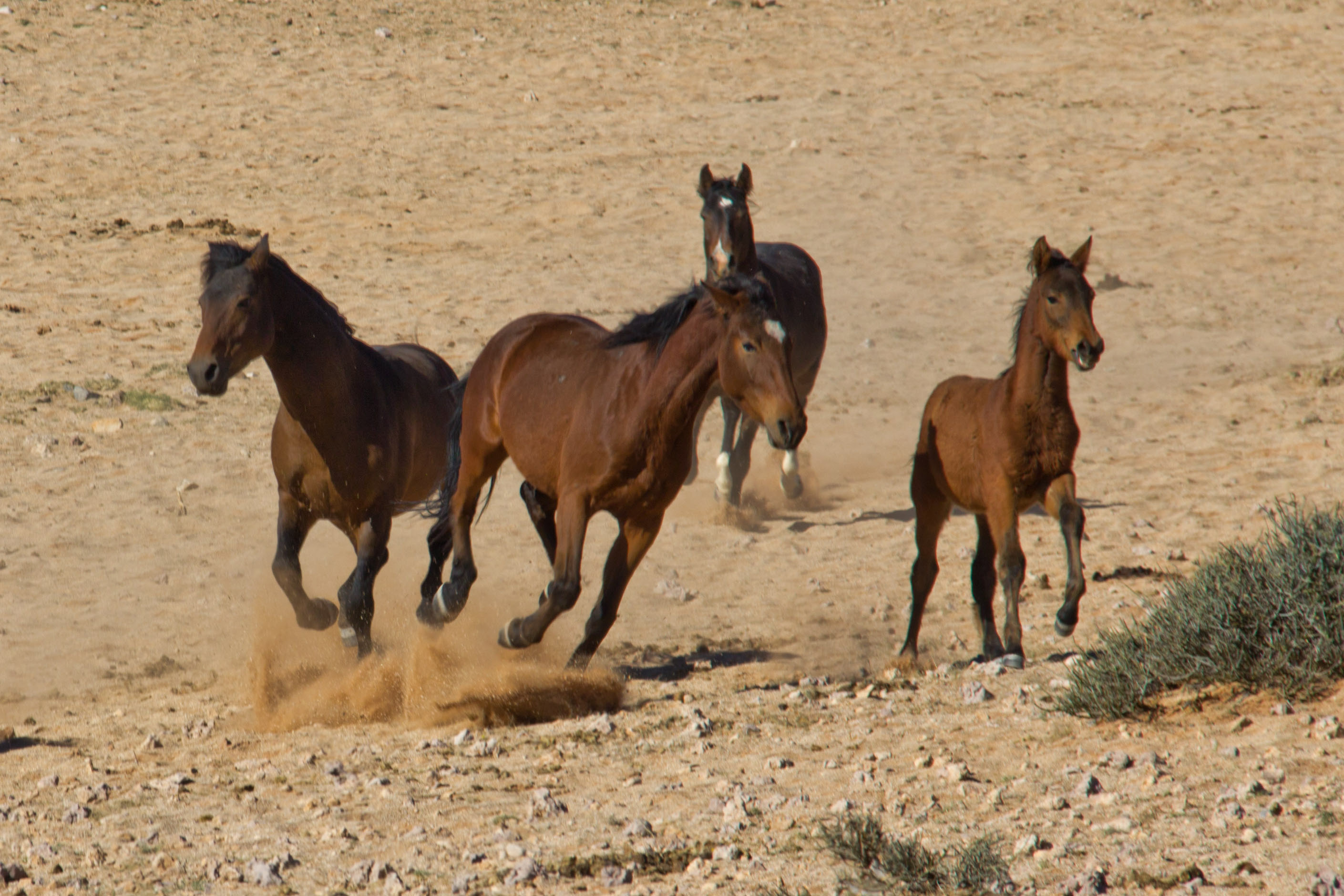 Feral (wild) horses of the Namib